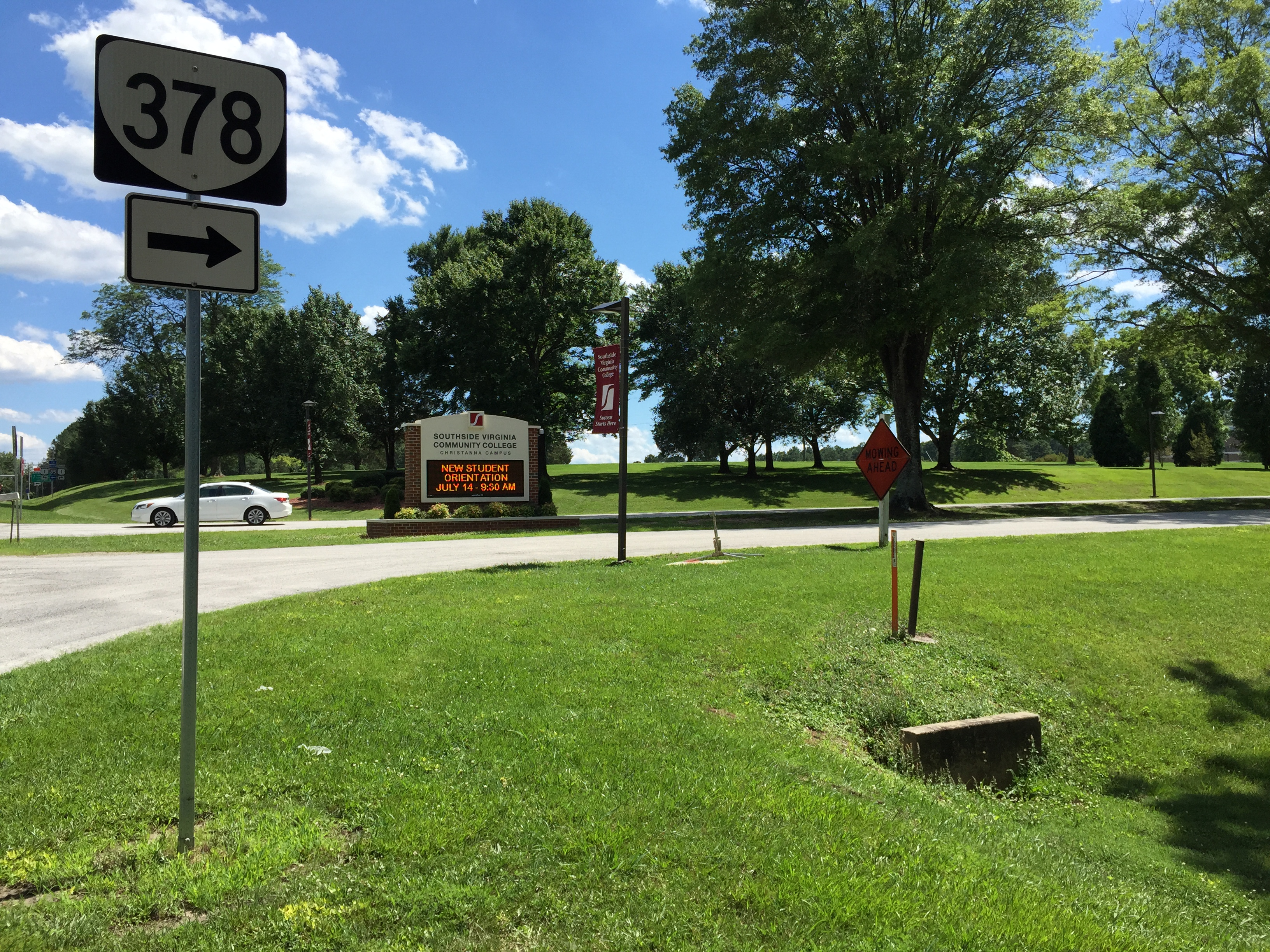 View west along Virginia State Route 378 (Campus Drive) at Virginia State Route 46 (Christanna Highway) at the Southside Virginia Community College, Christanna Campus in Alberta, Brunswick County, Virginia